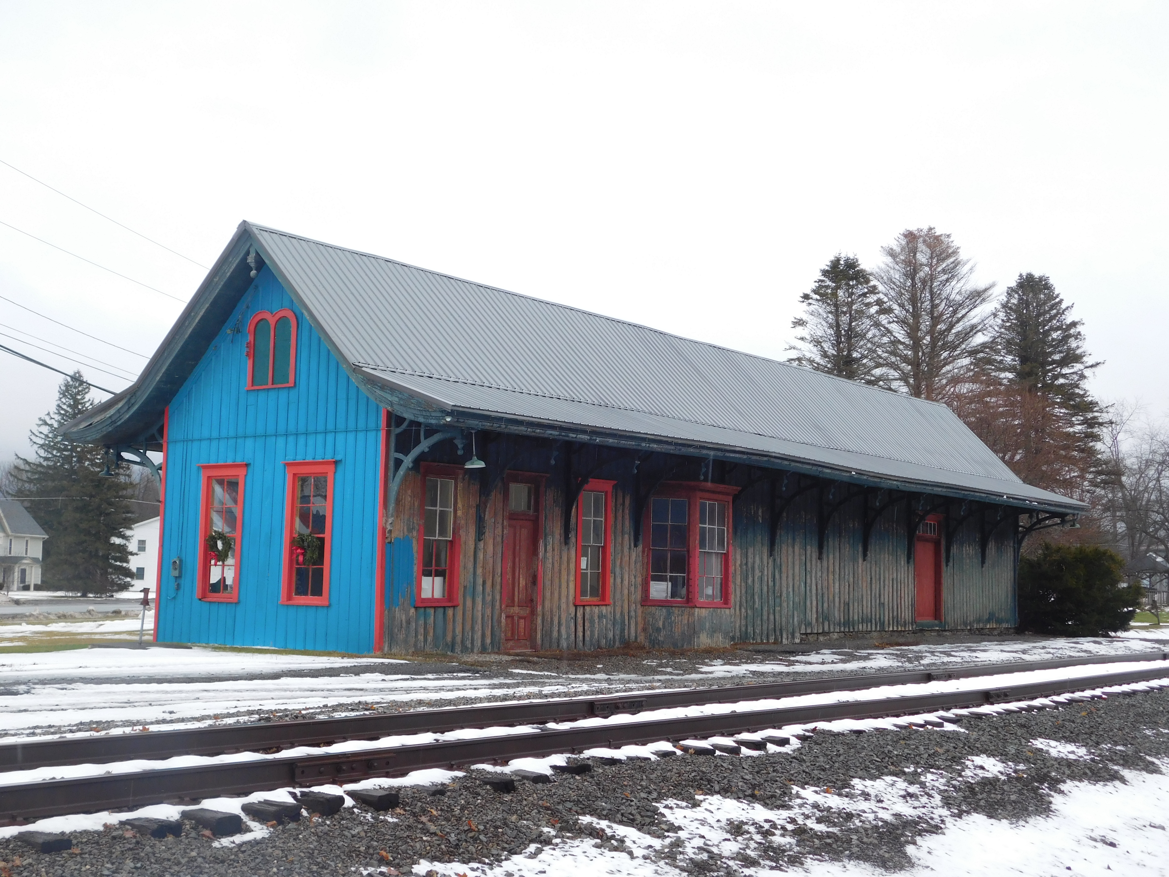 Atlanta, New York